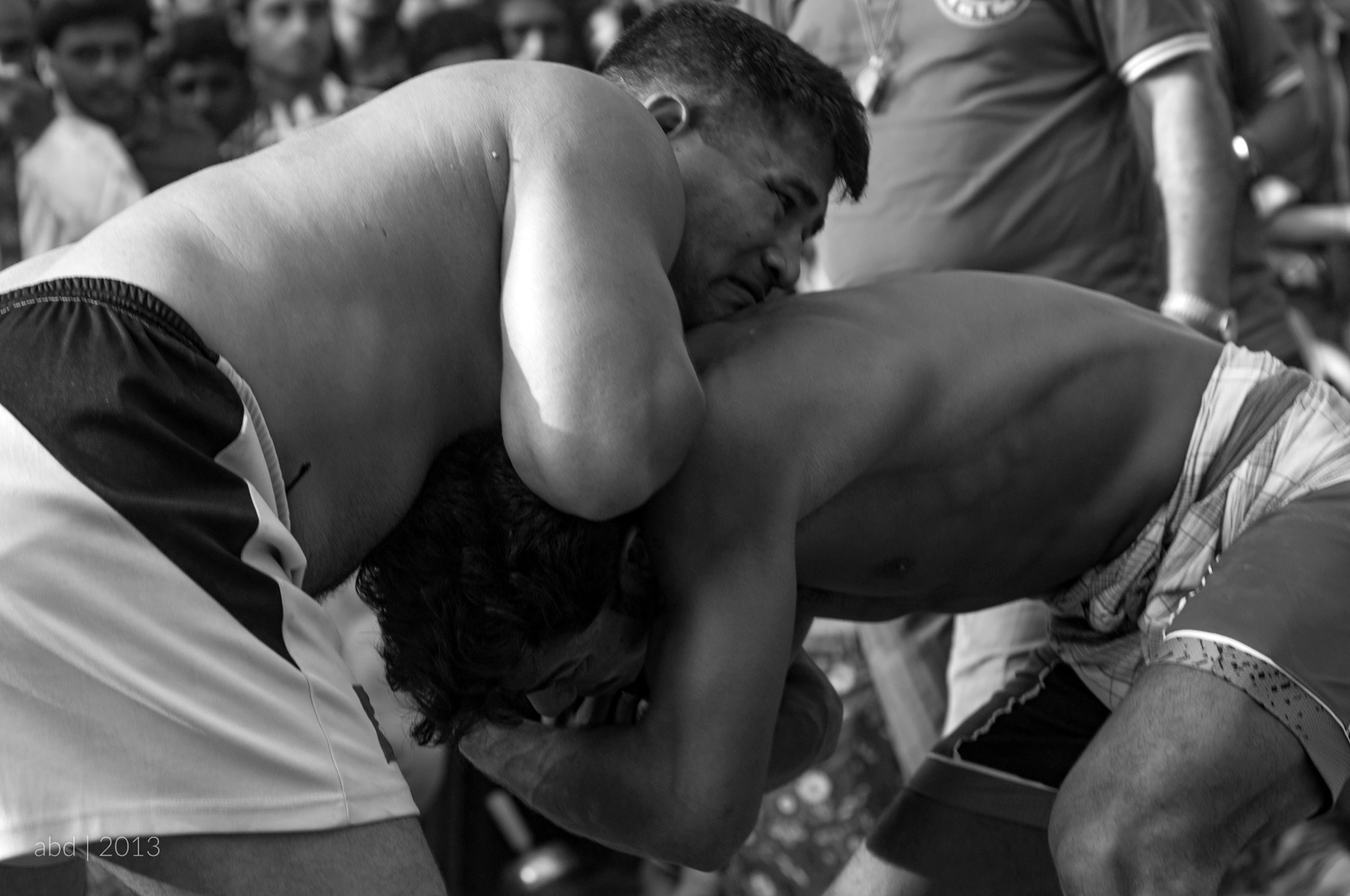 Two "Boli (Wrestler)" fighting in a wrestling match. "Boli Khela" is a local traditional wrestling game played between two "Boli" (wrestler). This event is hold on the first day of the Bengali new year in 14 April at Chittagong city of Bangladesh.